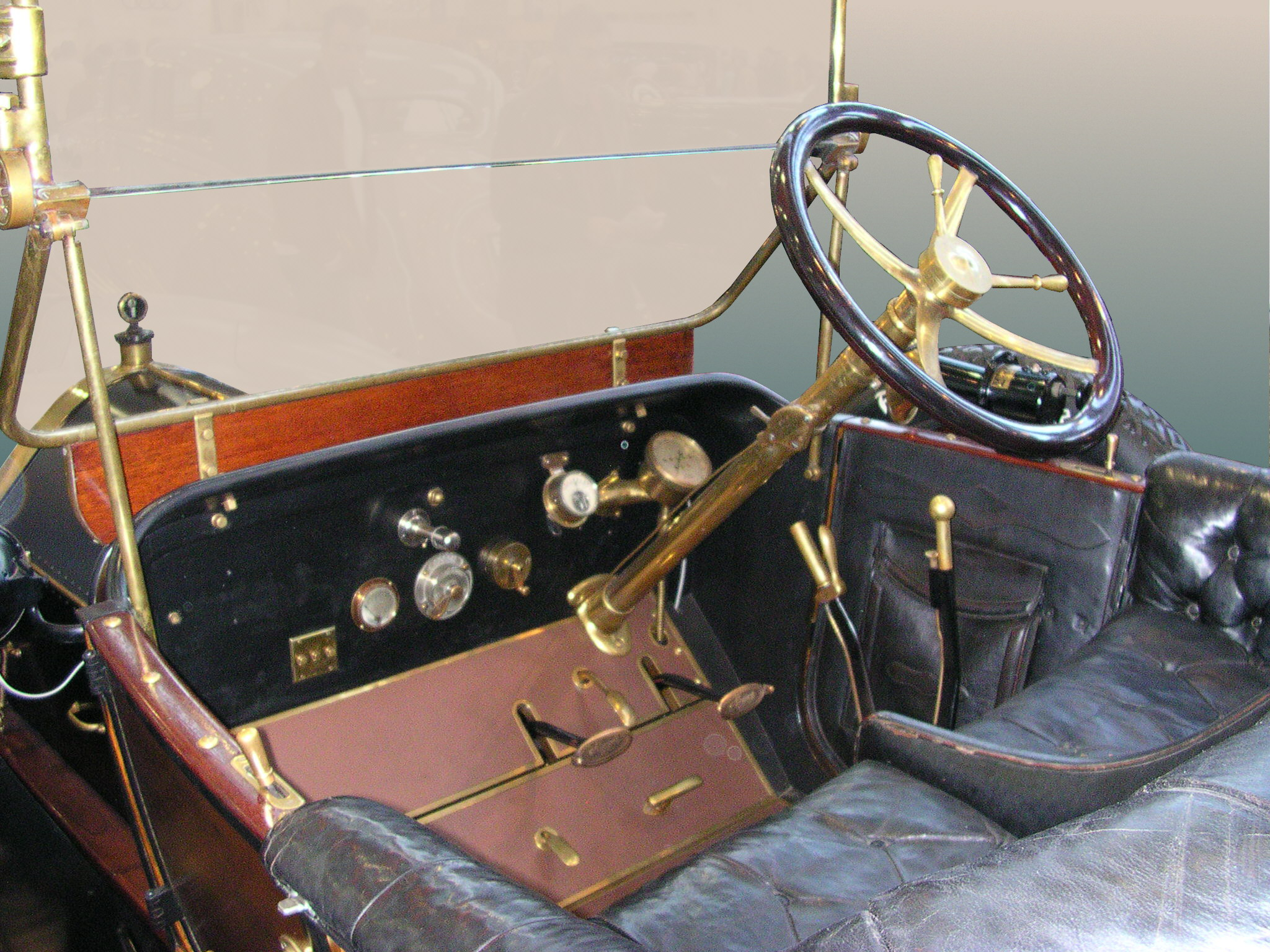 Techno-Classica 2007, Moyer Model B Touring car (1913), „T-Head Long Stroke“ motor